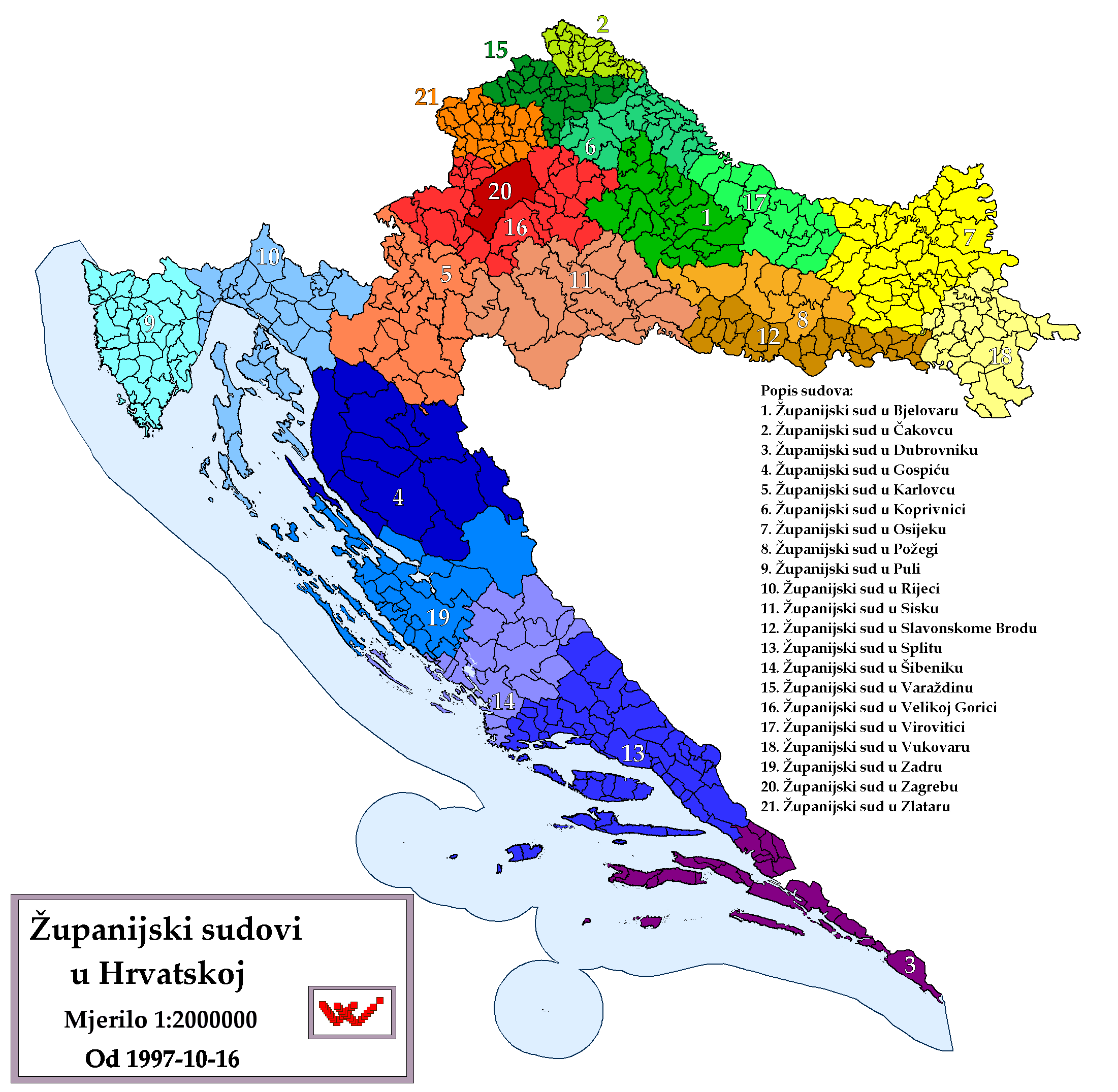 Courts of the Counties of the Republic of Croatia